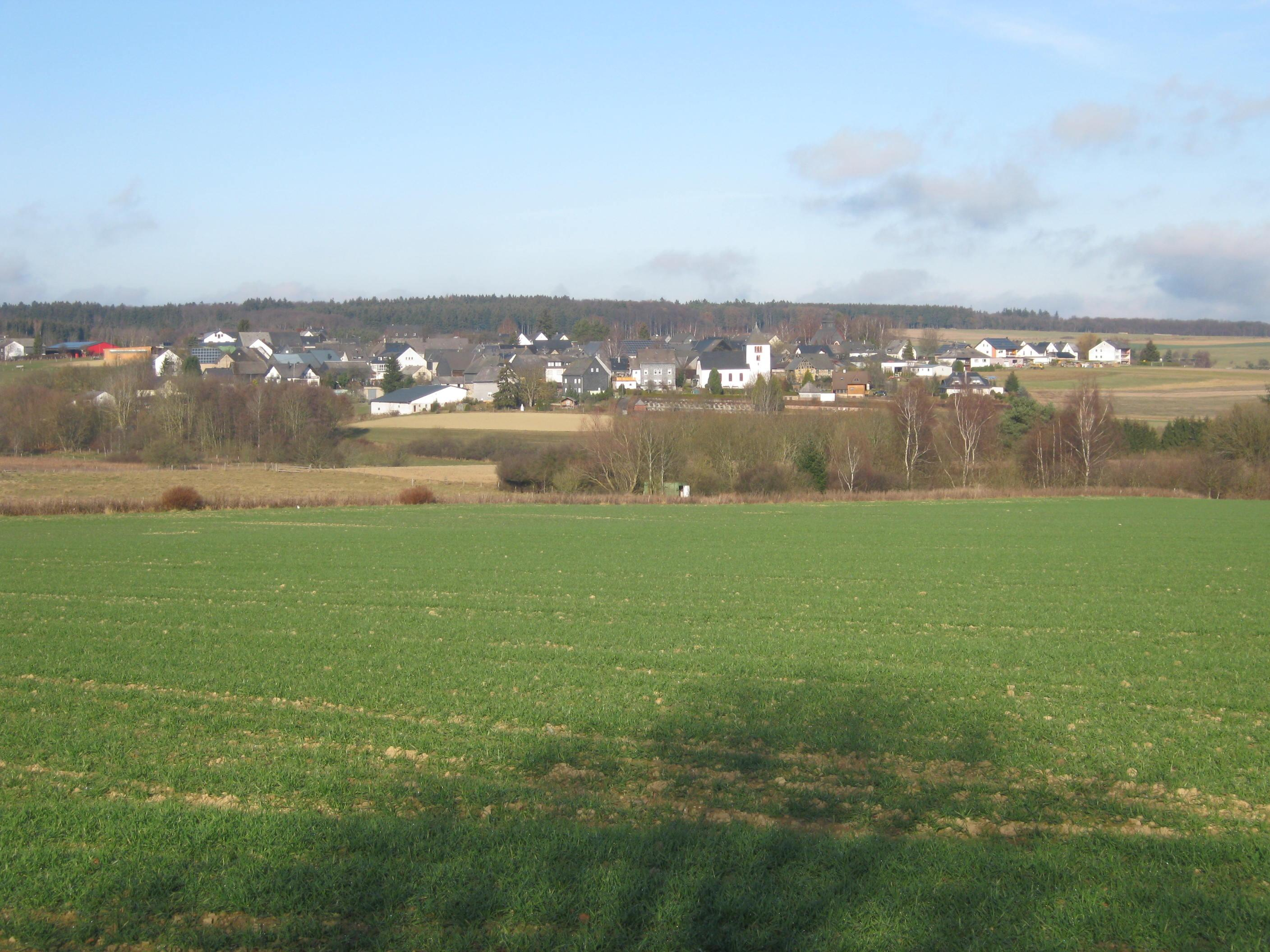 Hirschfeld in the Hunsrück landscape, Germany